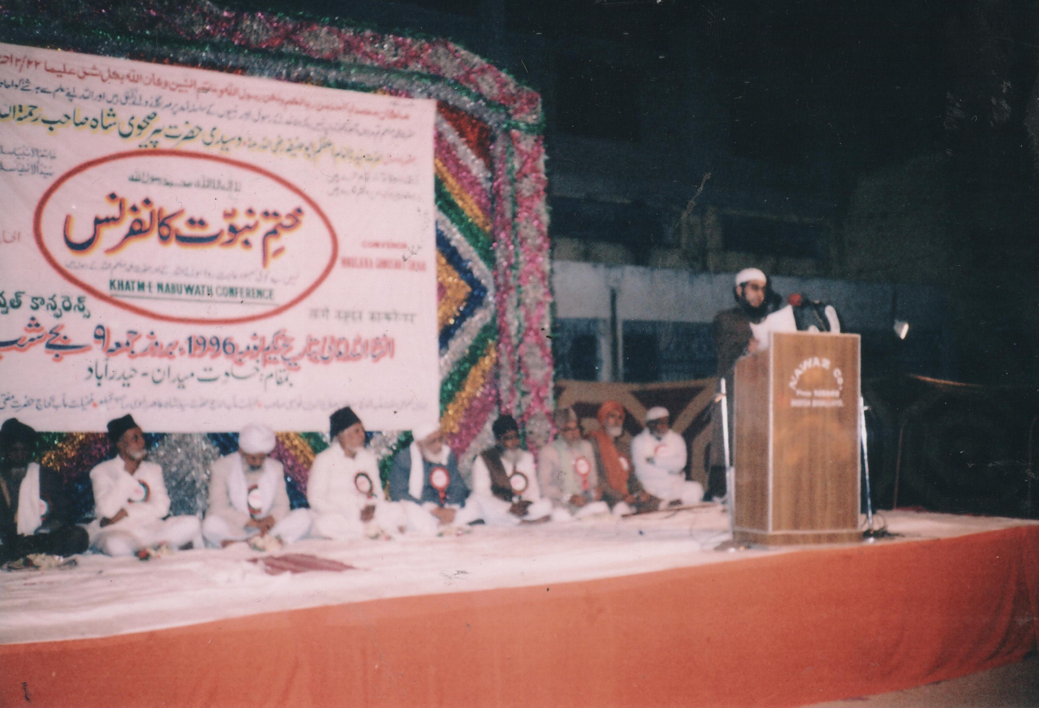 Khatme Nabuwat Conference organized by Moulana Ghousavi Shah(Secretary General: The Conference of World Religions)